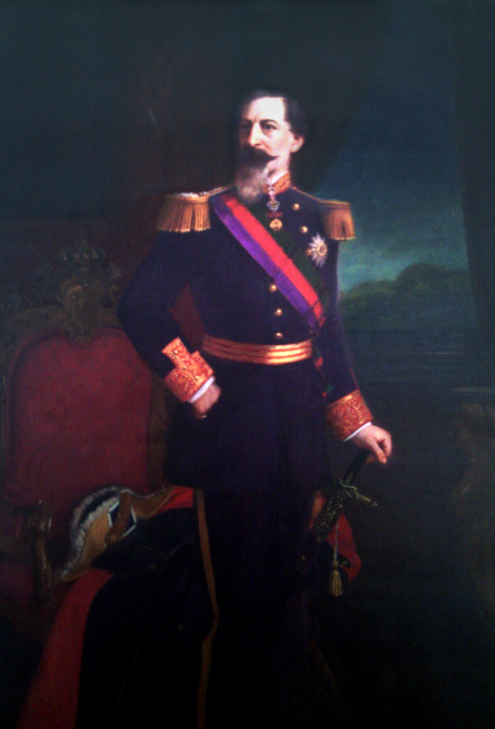 King Ferdinand II of Portugal (1816-1885)